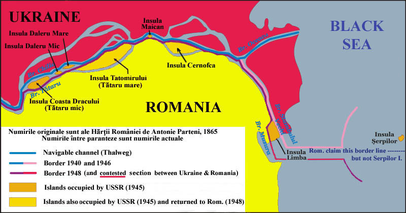 Contested islands between Romania and Ukraine